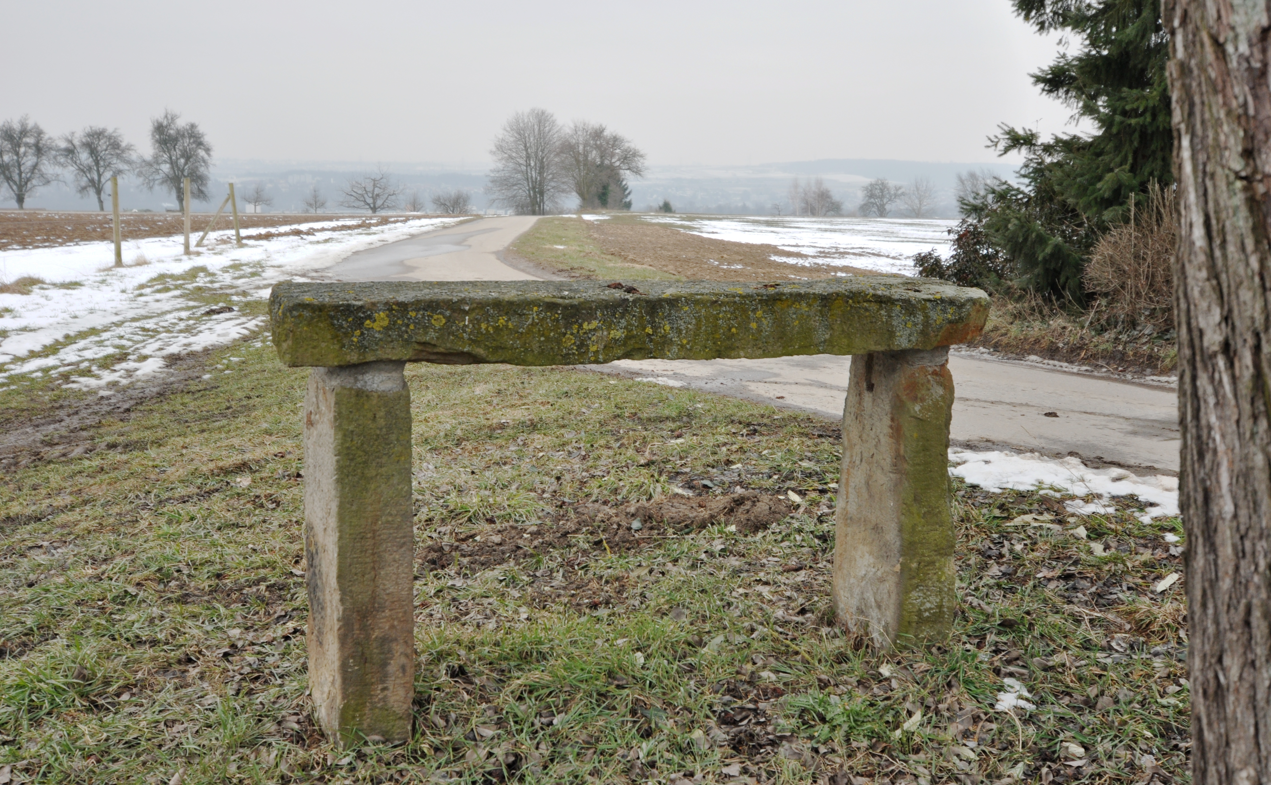 Old stone rest bench on the Abendberg north of Bietigheim-Bissingen